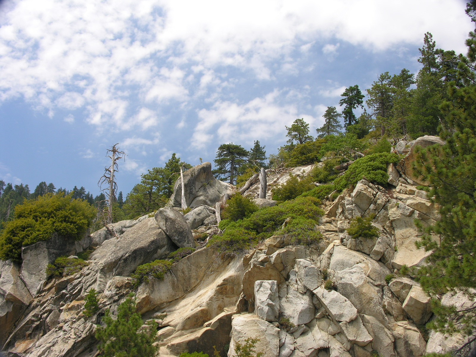 A rocky outcrop near the southern entrance of Sequoia National Park